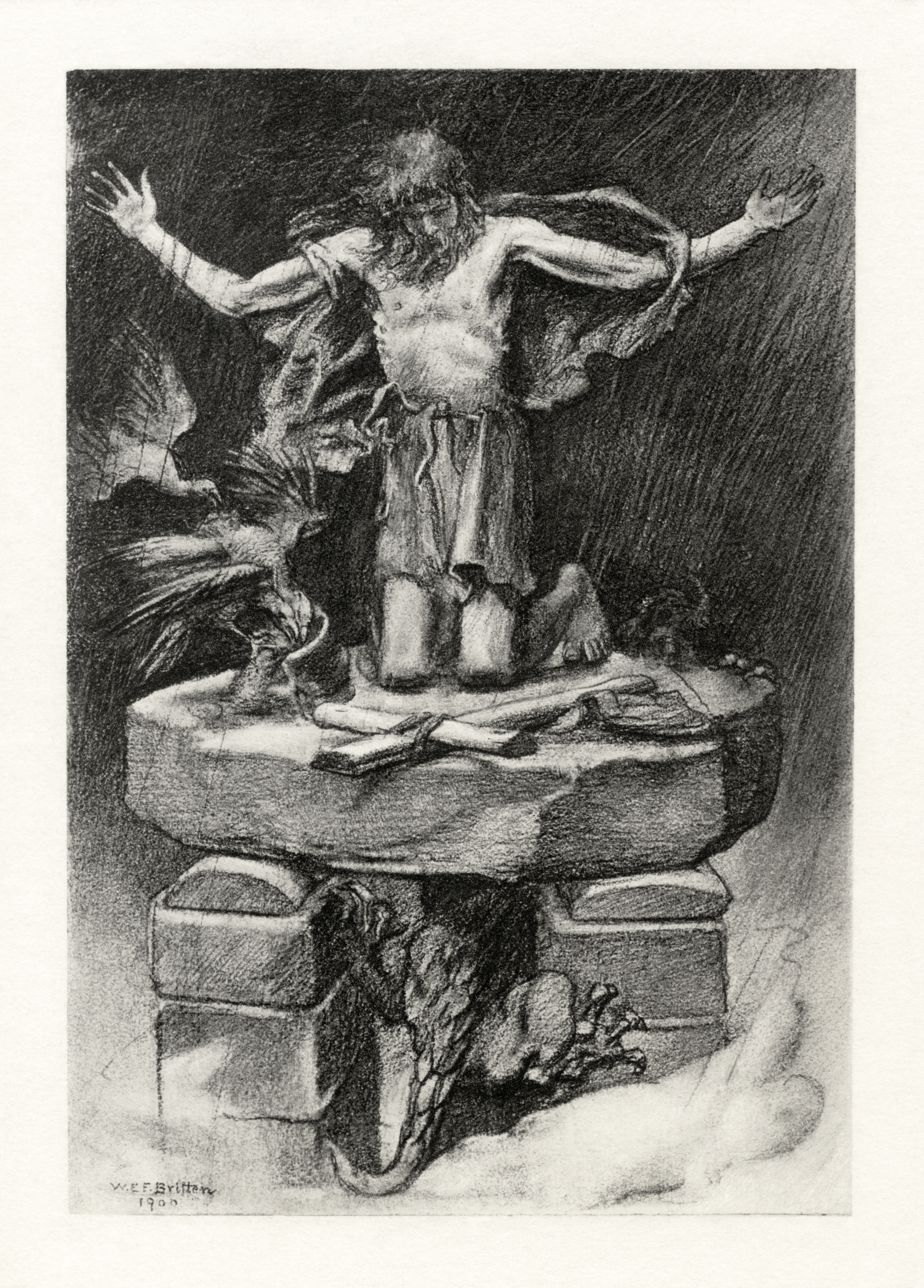 Illustration to Tennyson's "St. Simeon Stylites" by W. E. F. Britten: "And yet I know not well, For that the evil ones come here, and say, 'Fall down, O Simeon; thou hast suffered long For ages and for ages!'"